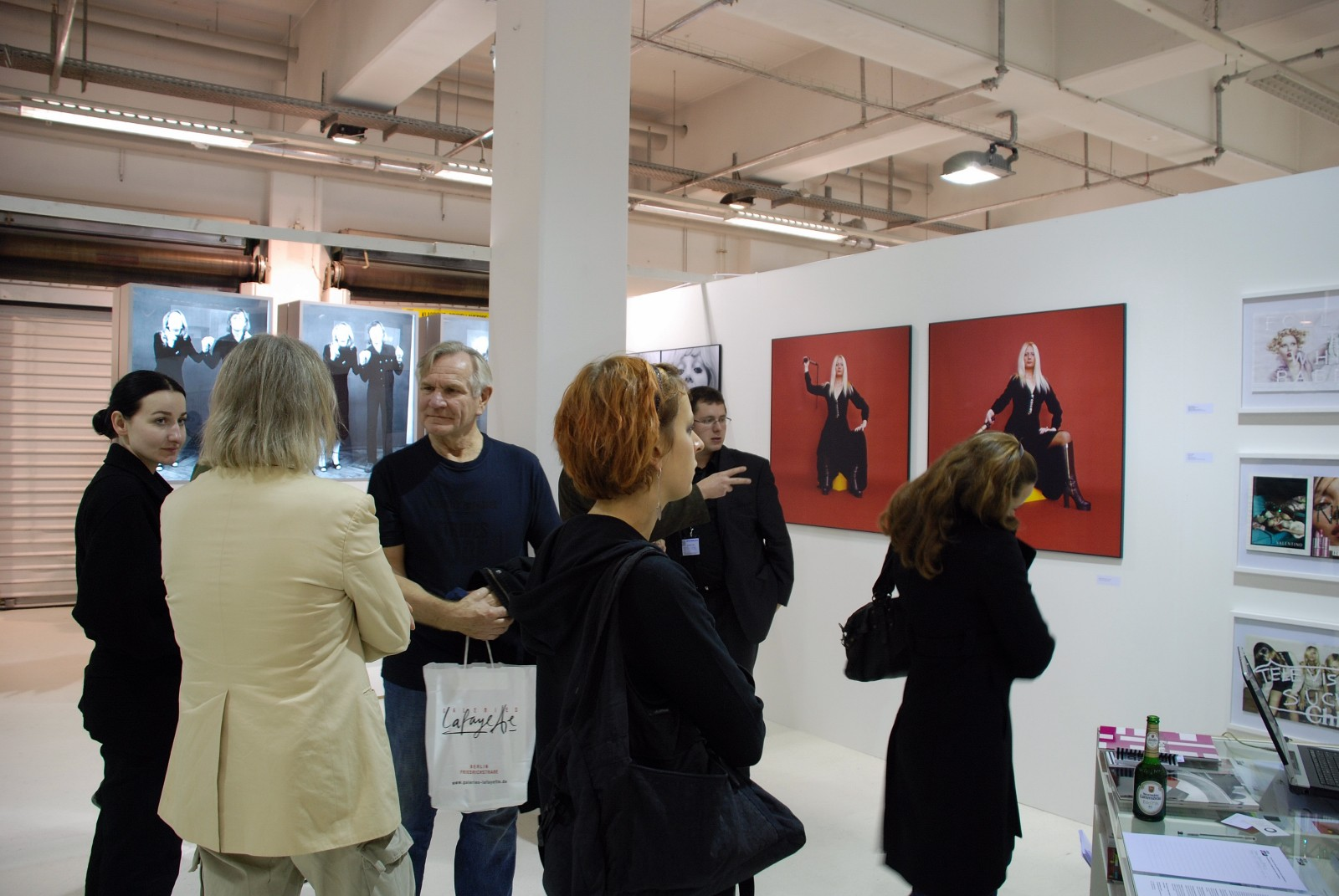 Art Fair Berliner Liste 07, Berlin, September - November; fot. Zofia Waligóra